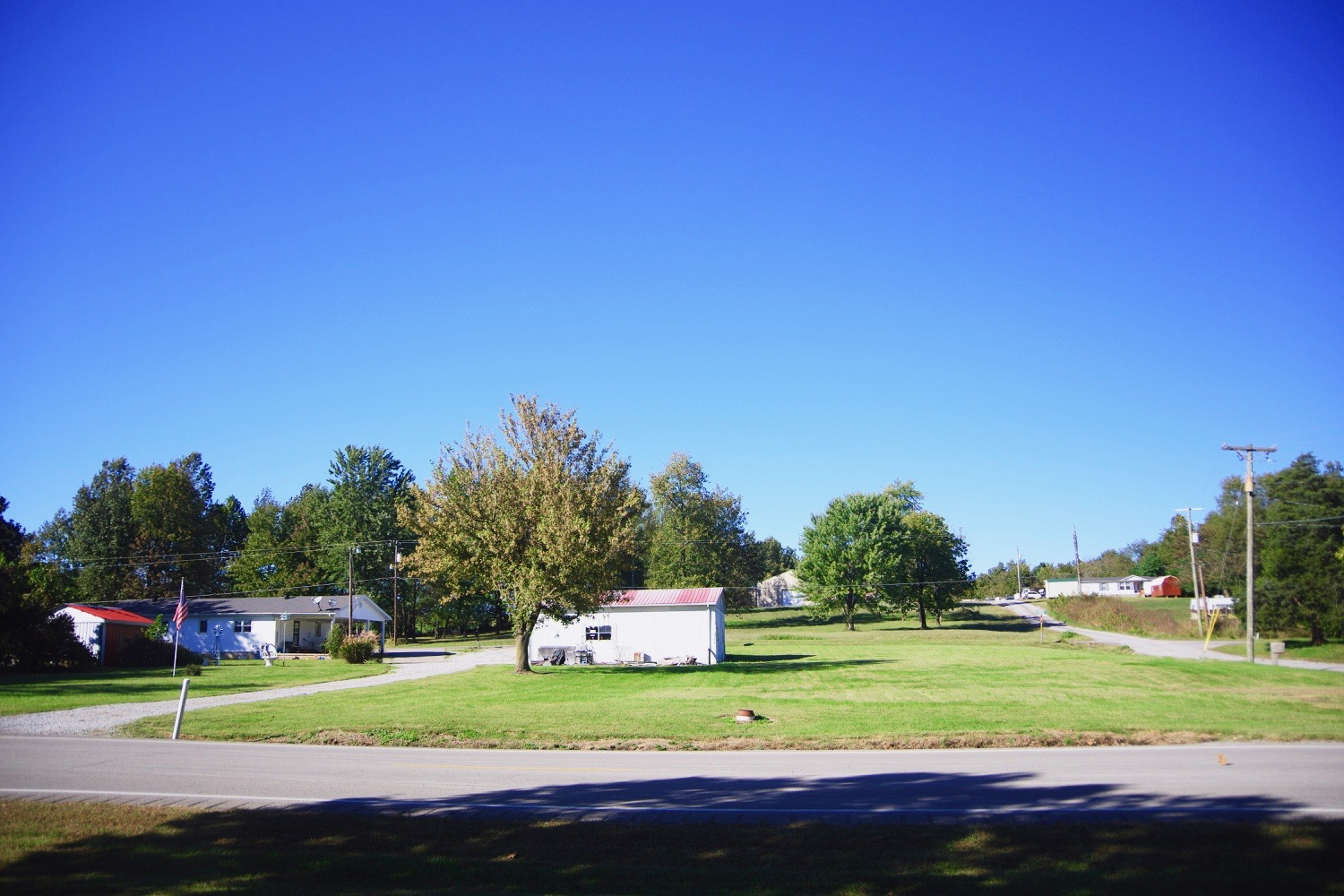 Houses in Wheatcroft, Kentucky, United States, viewed from the intersection of Kentucky Route 109 (foreground) and Lexington Street (on the right).